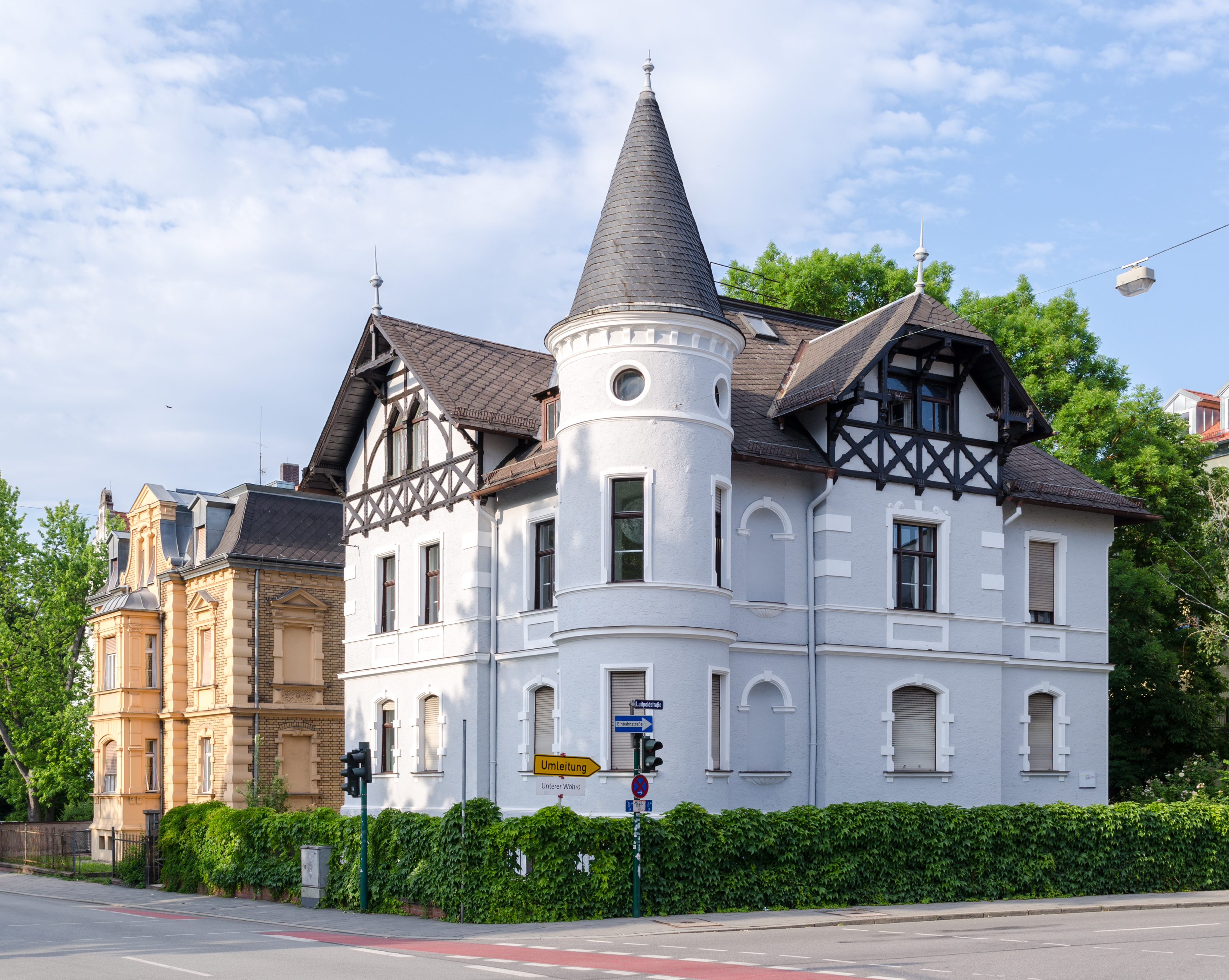 Regensburg (Bavaria, Germany) – inner city D Martin Lutherstr 17 – villa (1895)